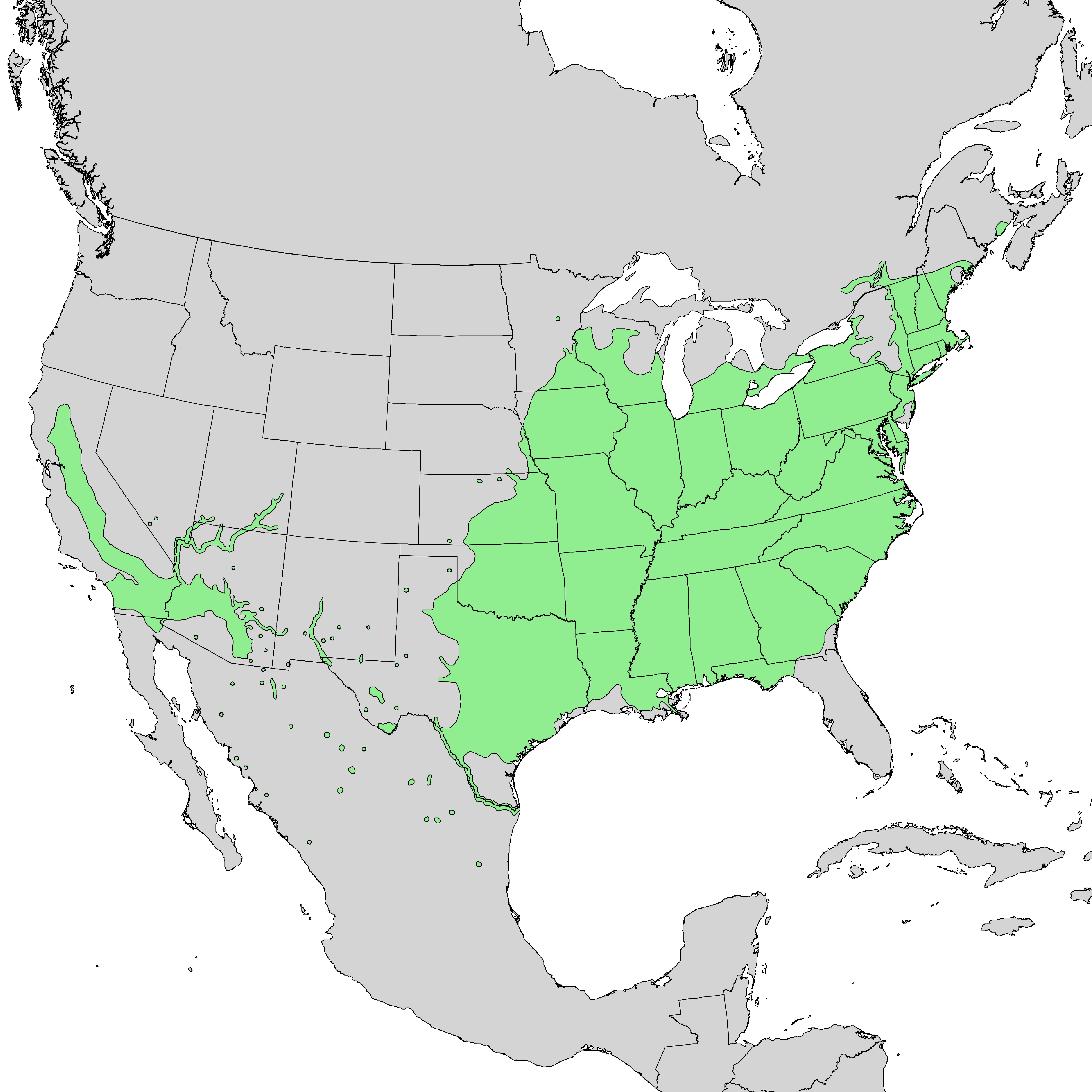 Natural distribution map for Salix nigra (black willow)